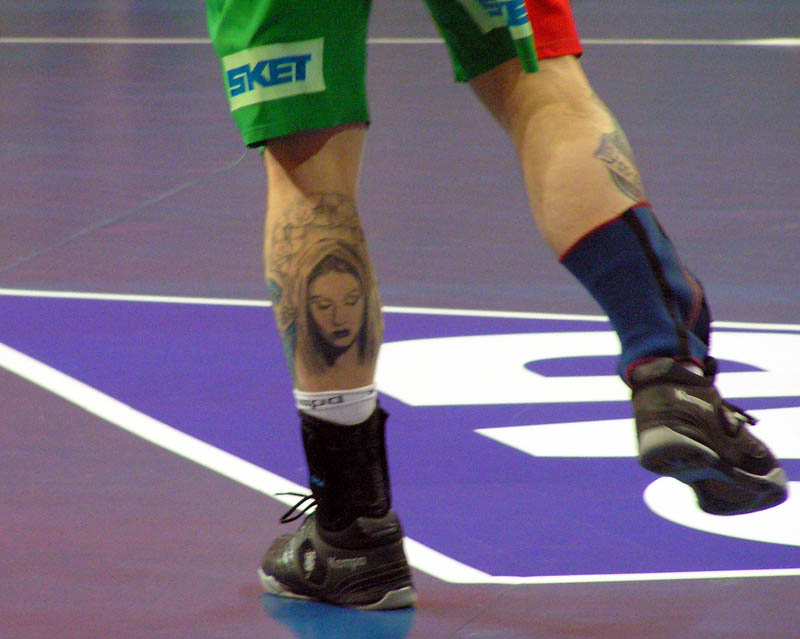 Stefan Kretzschmar legs, on February 21st 2007 in Mannheim SAP Arena (Germany), prior the game SG Kronau-Östringen - SC Magdeburg (32:27).